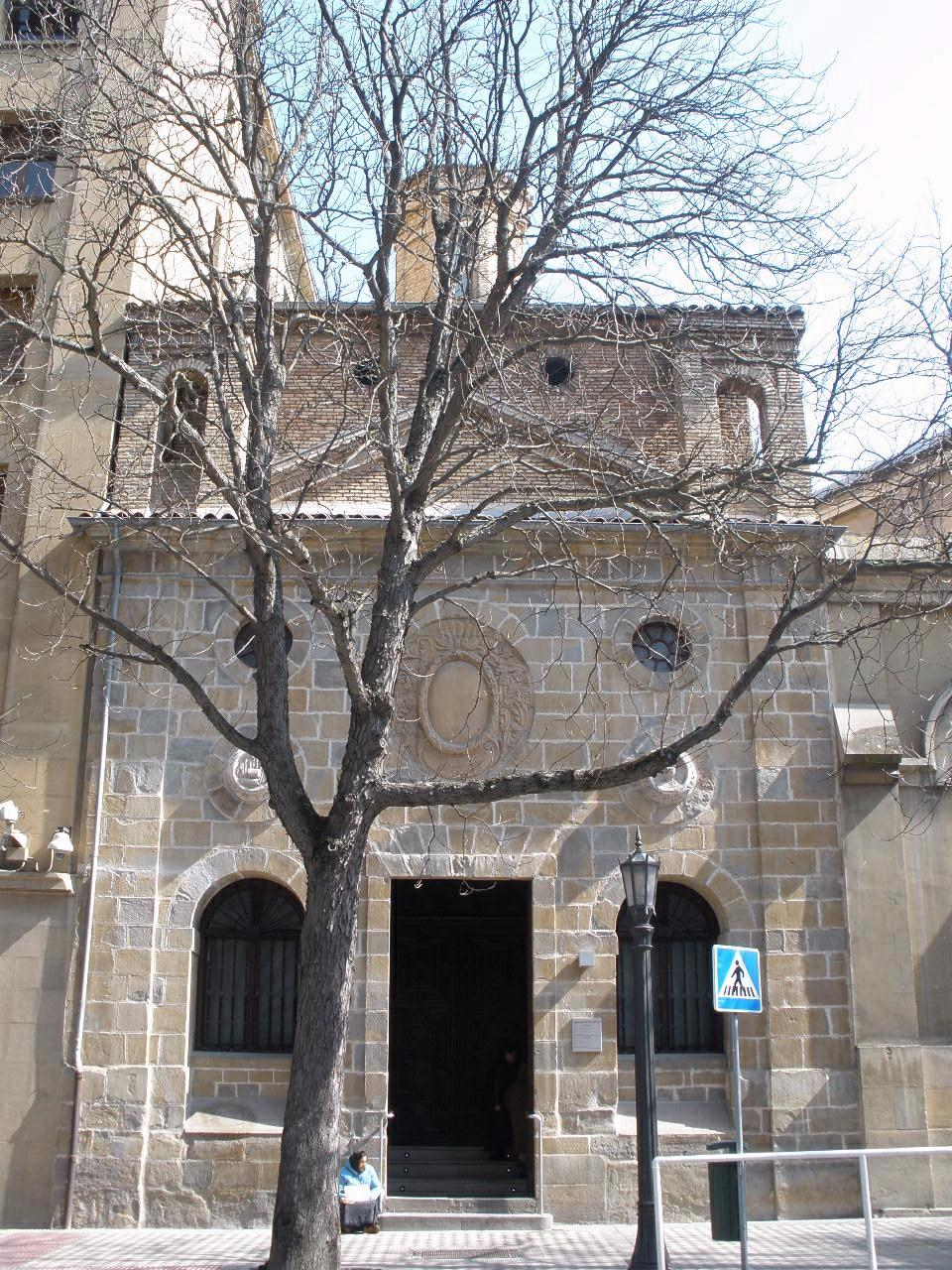 Basílica de san Ignacio de Loyola, Pamplona.